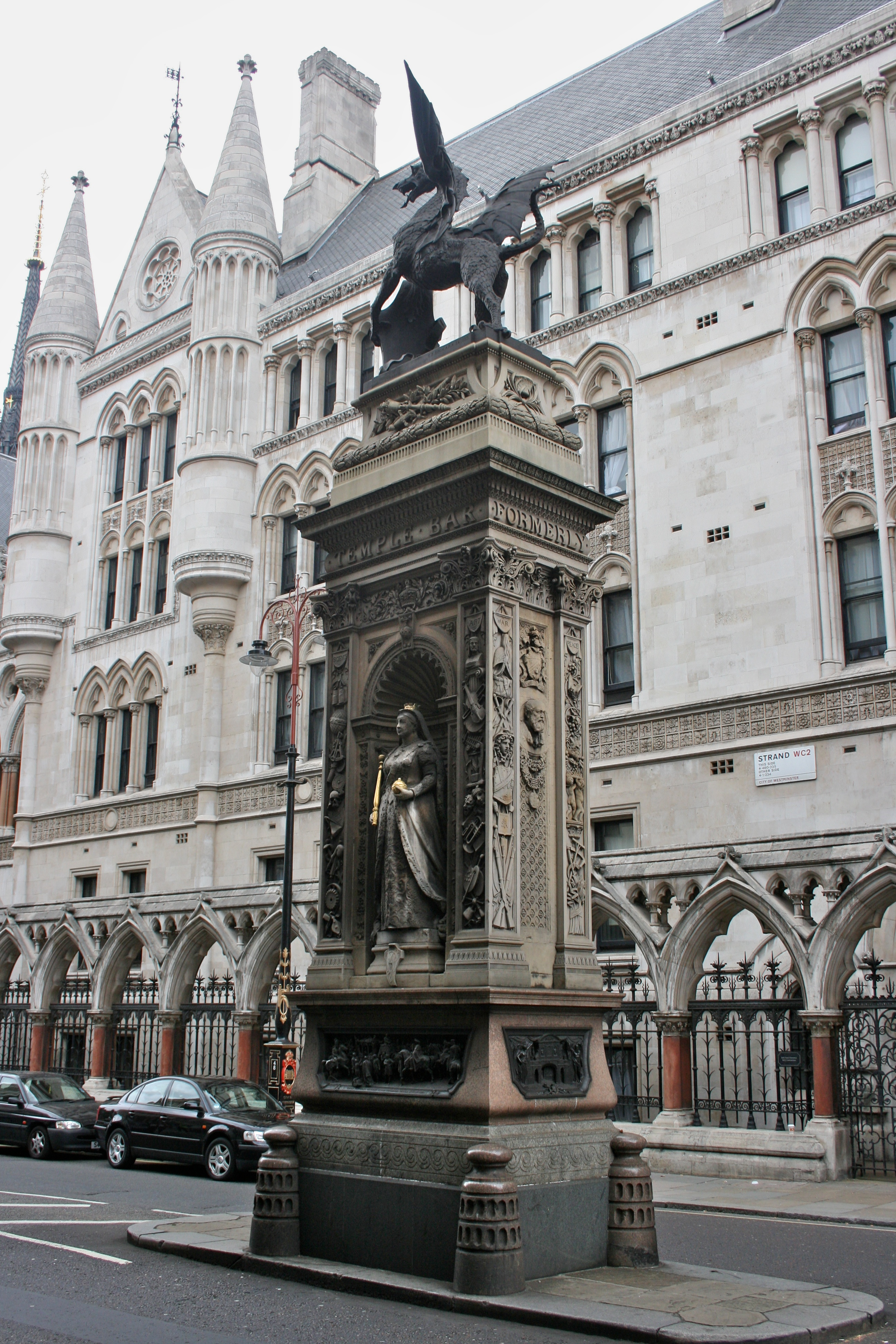 Temple Bar Marker, London.